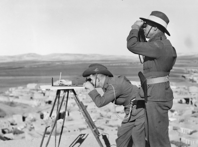 Members of the 2/1st Australian Corps Field Survey Company, Syria, December 1941